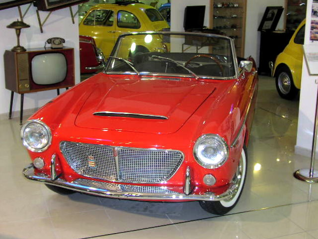 Fiat 1200 Convertible